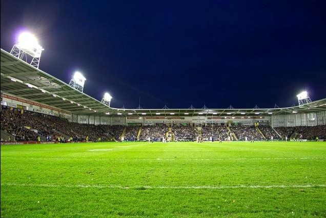 Halliwell Jones Stadium @ Kickoff